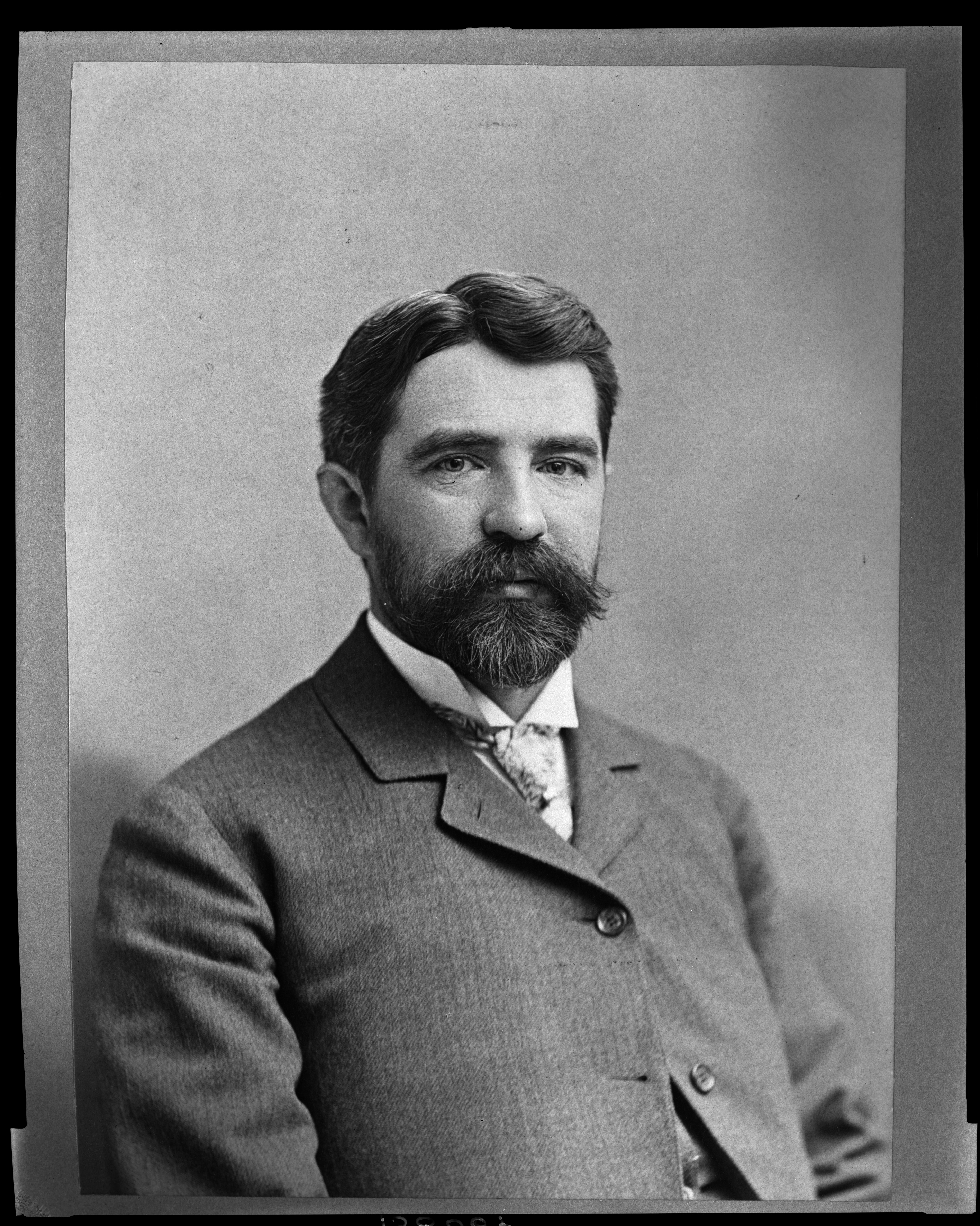 Title: William F. Aldrich, Republican Congressman from Alabama, head-and-shoulders portrait, facing front Abstract/medium: 1 photographic print.